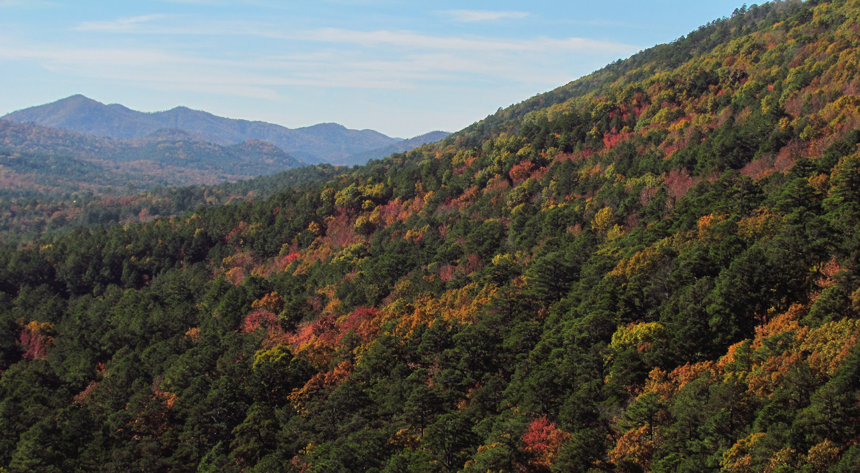 Looking out at West Hannah mountian in the Ouachitas of Arkansas